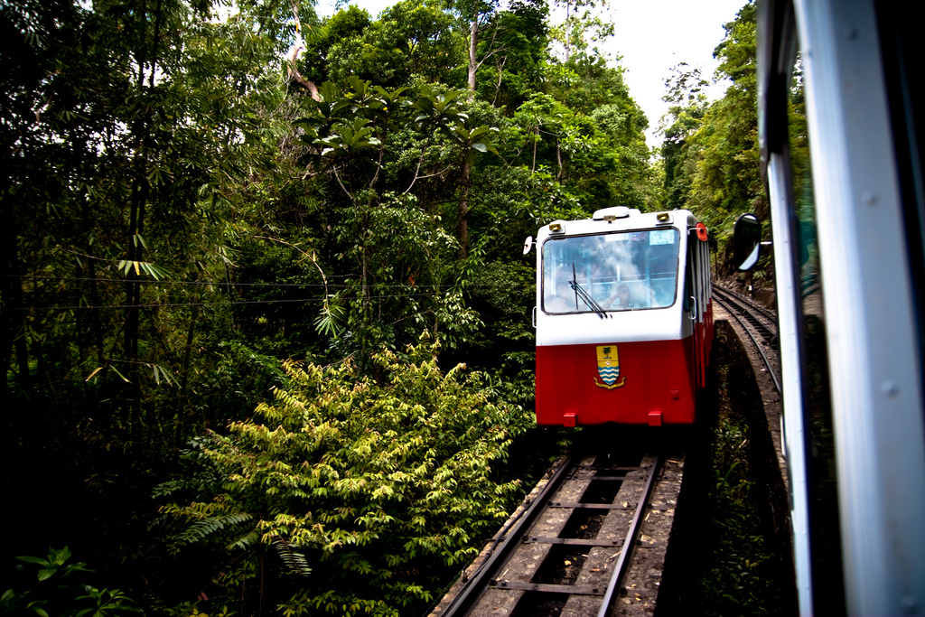 While we were at the track intersection.